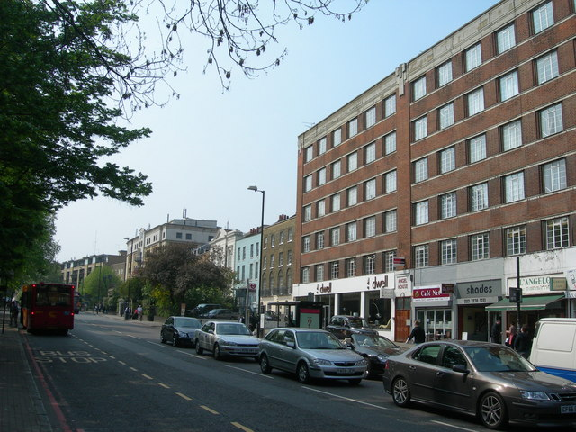 Pentonville Road, N1 At The Angel, looking towards Kings Cross. Showing Angel House (shops and flats above) to the right.